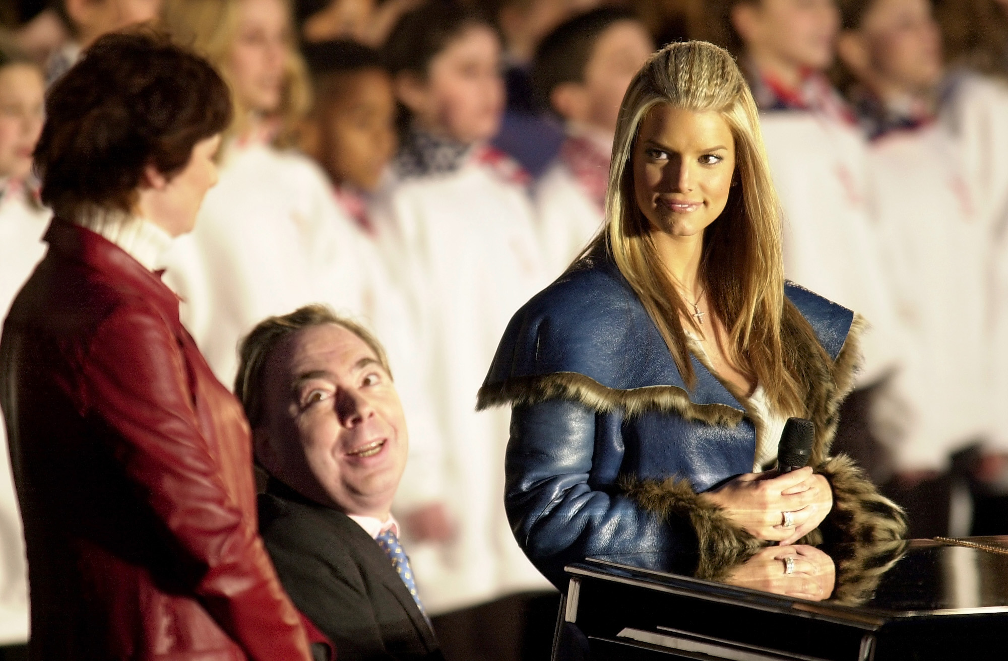 Andrew Lloyd Weber and singers Josie Walker and Jessica Simpson perform at the 54th Presidential Inaugural Opening Celebration held at the Lincoln Memorial, Washington, D.C., Jan. 18, 2001.